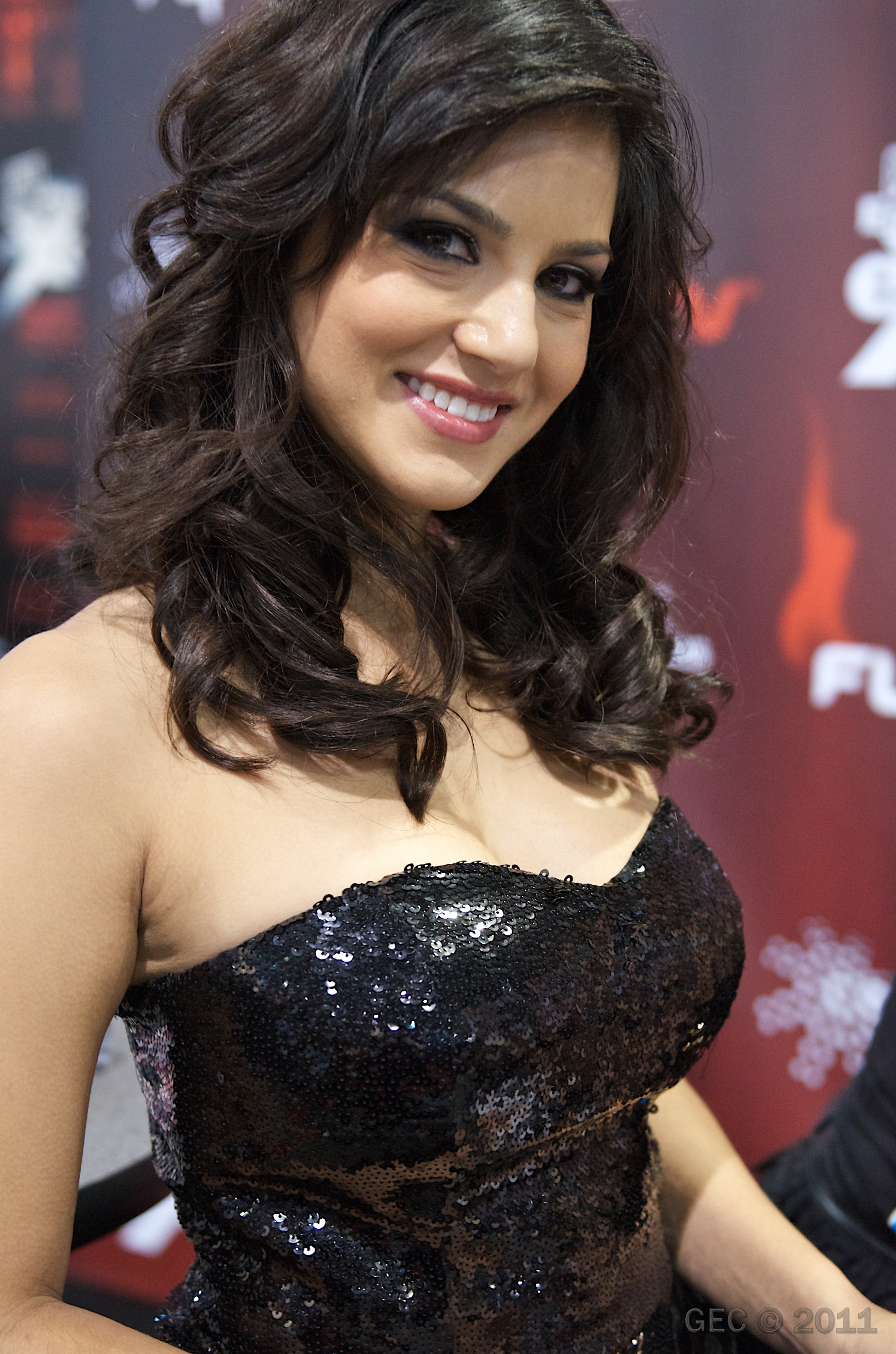 2011 AVN Adult Entertainment Expo (AEE) - Las Vegas Sands Center. © 2011 GEC